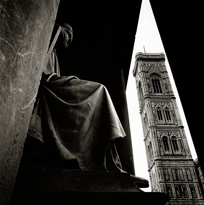 Florence - Augusto De Luca photo